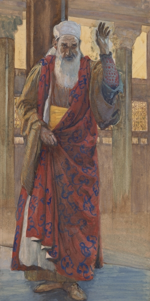 Isaiah, c. 1896-1902, by James Jacques Joseph Tissot (French, 1836-1902) or follower, gouache on board, 9 7/8 x 4 7/8 in. (25.1 x 12.4 cm), at the Jewish Museum, New York